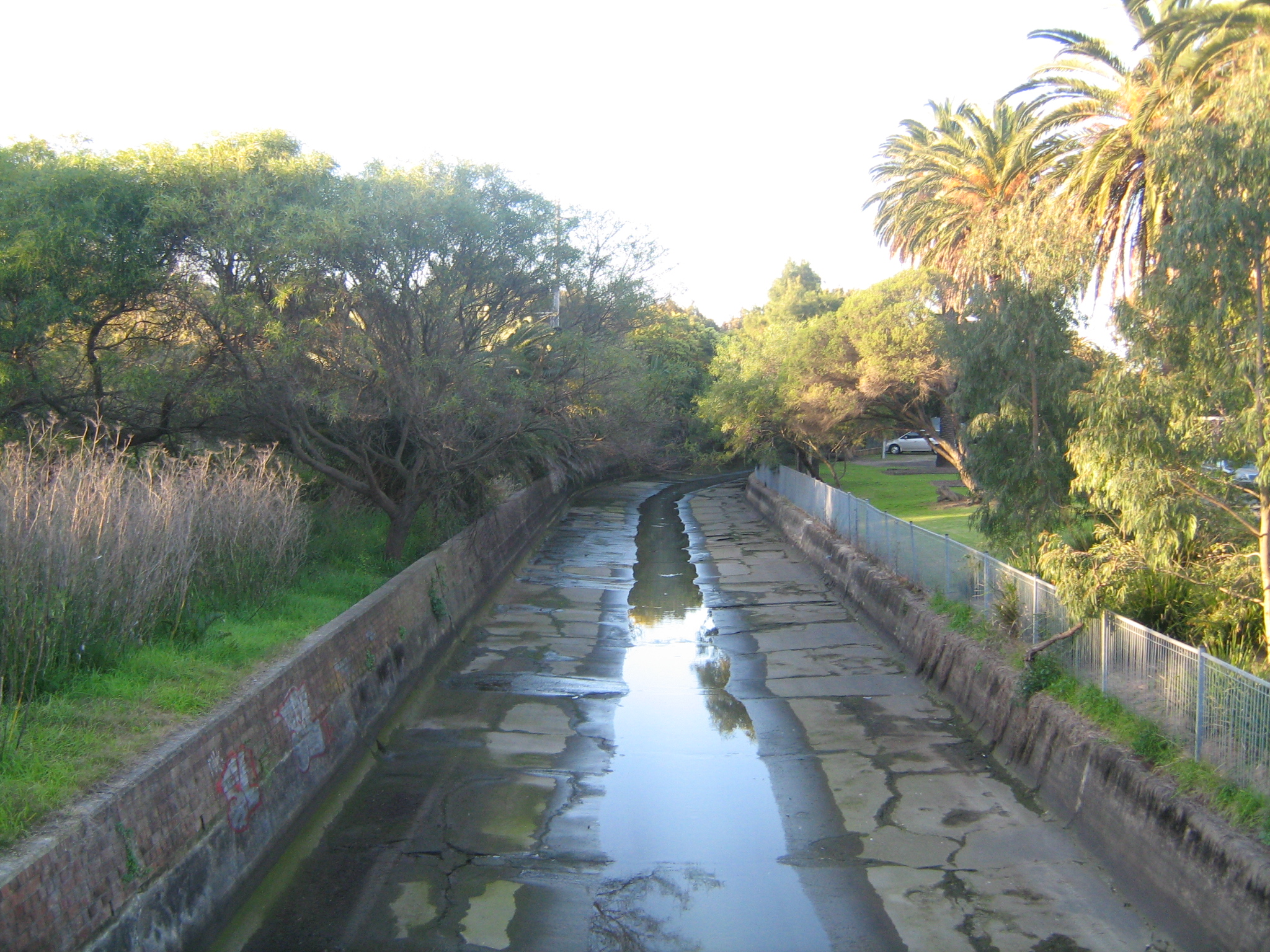 View of Whites Creek stormwater channel looking downstream from the corner of Brenan St and Railway Pde, Annandale, NSW, Australia.